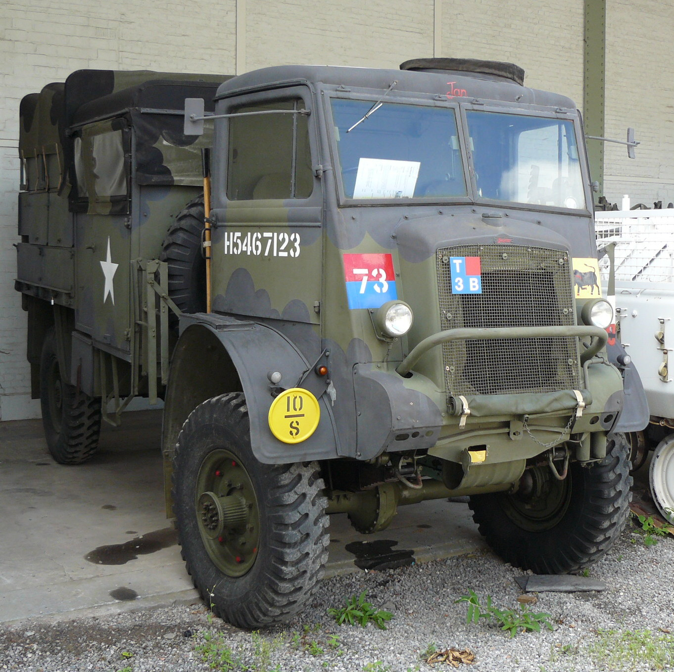 Bedford QLB, a British gun tractor from World War 2. Seen in the Royal Museum of the Armed Forces and Military History, Brussels.